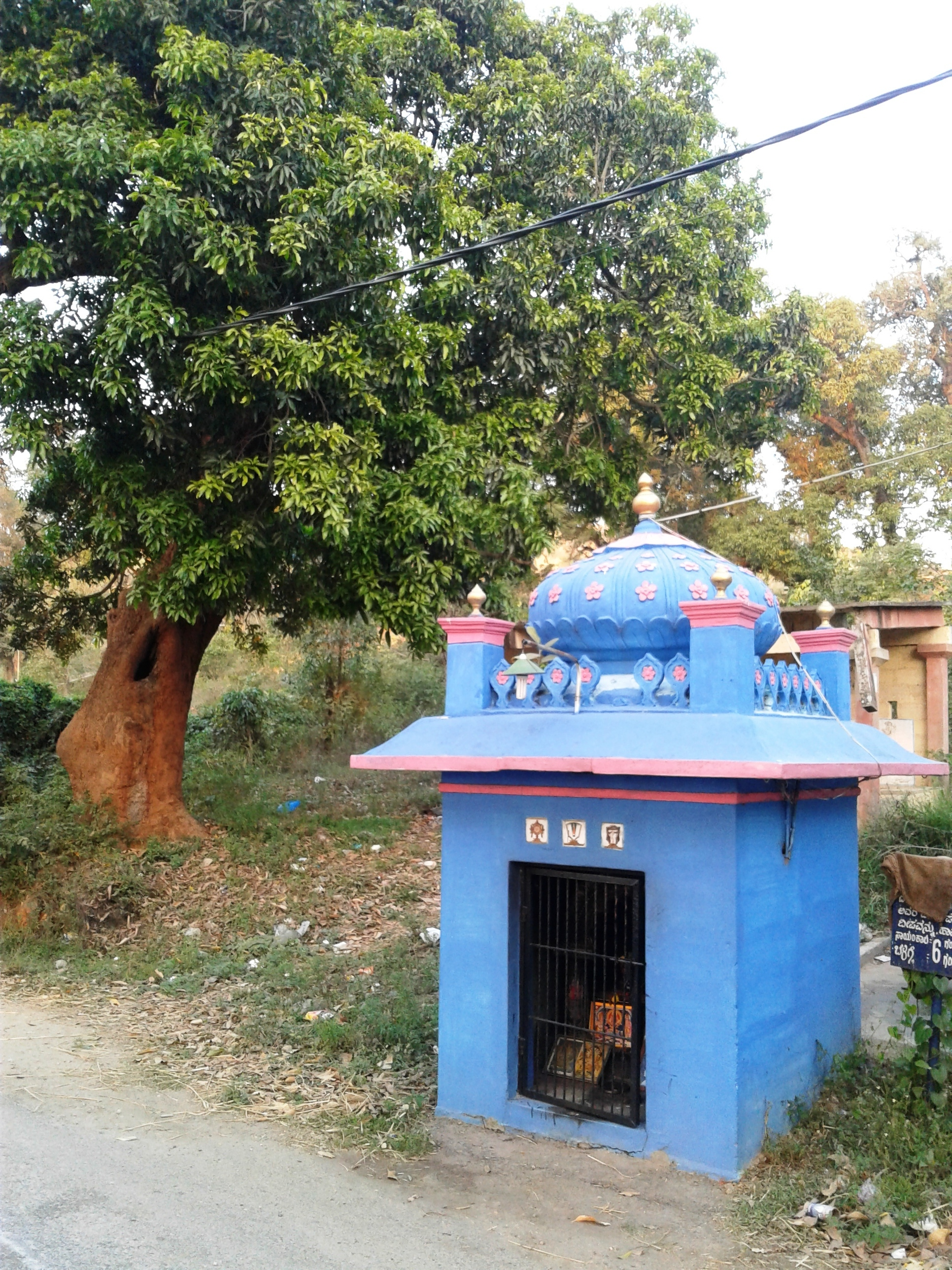 Srirangapatna, Mandya district, Karnataka state, India.